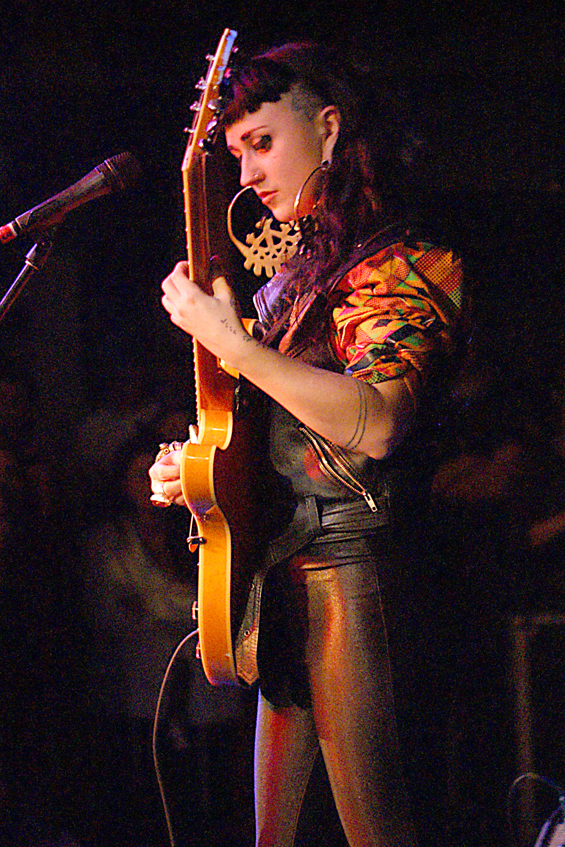 Nai Palm performing with Hiatus Kaiyote @ The Basement in 2015